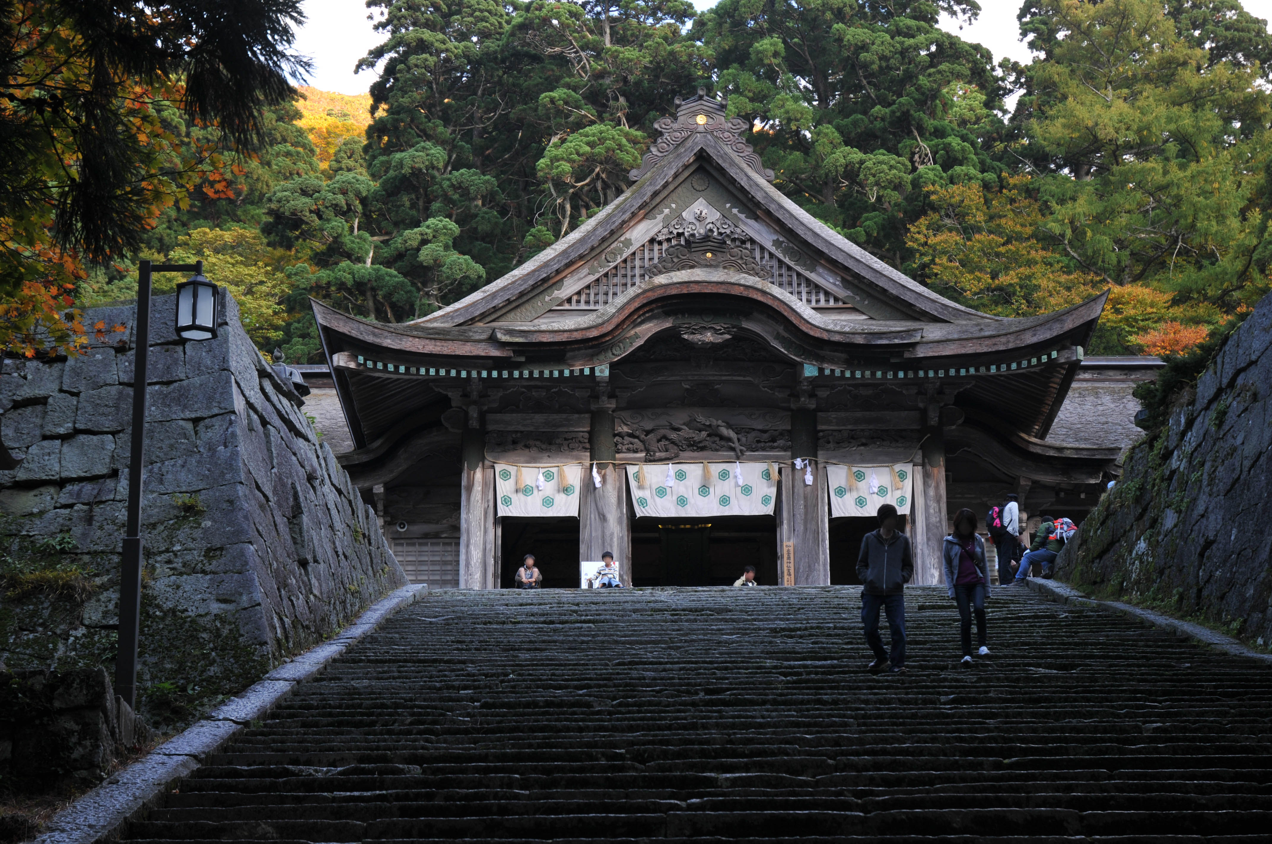 stairs approach to Okunomiya